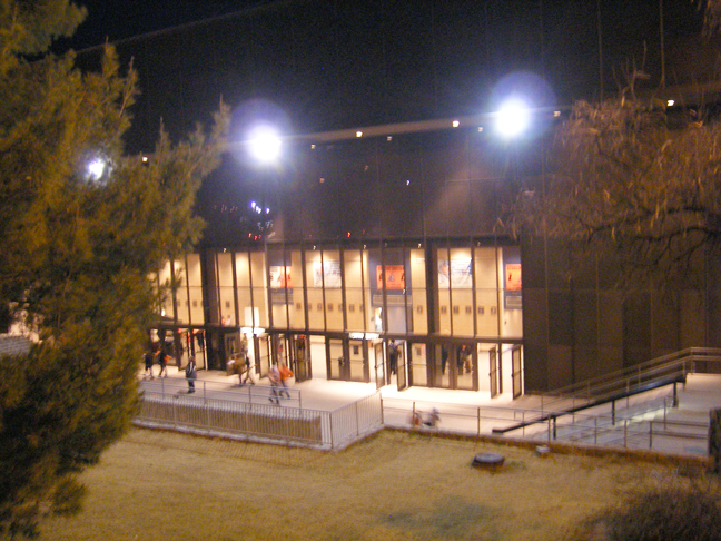 I took this image myself. This is the North Entrance to The Don Haskins Center.